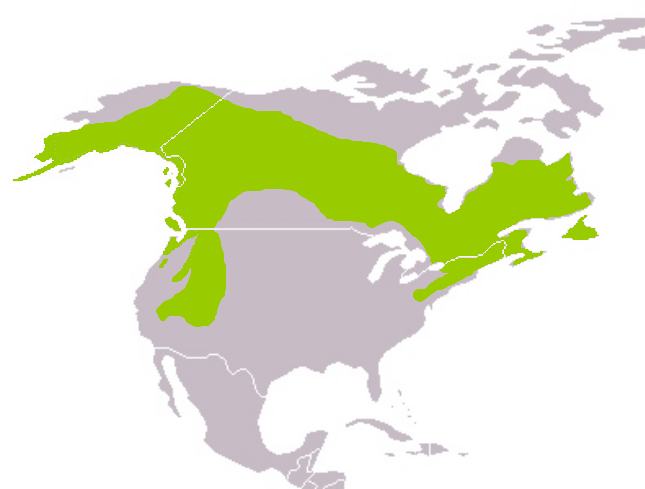 Distribution map of Picoides dorsalis Scops 11:42, 19 March 2006 (UTC)